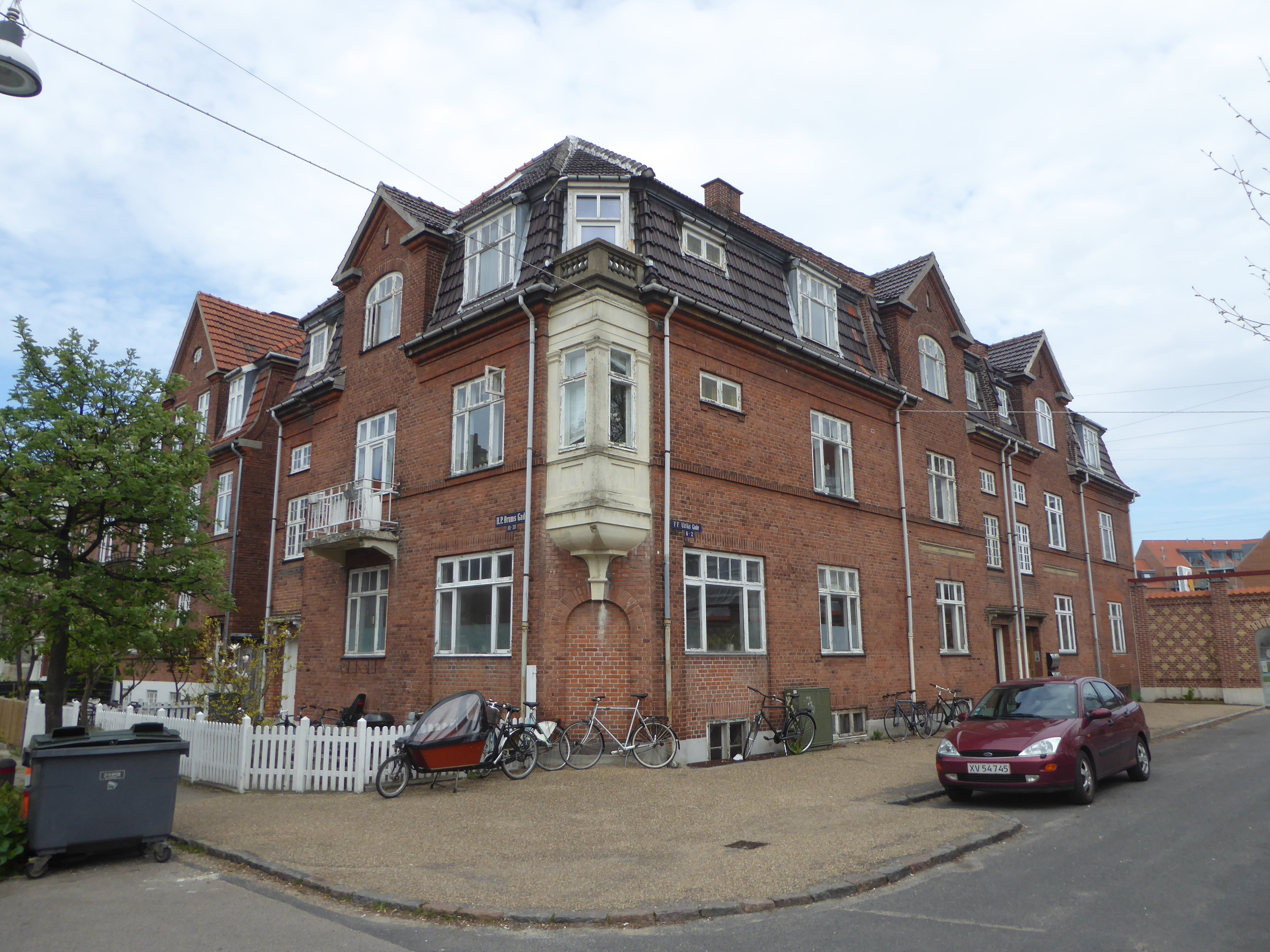 Apartment building at the corner of H.P. Ørums Gade and F.F. Ulriks Gade in Østerbro in Copenhagen.